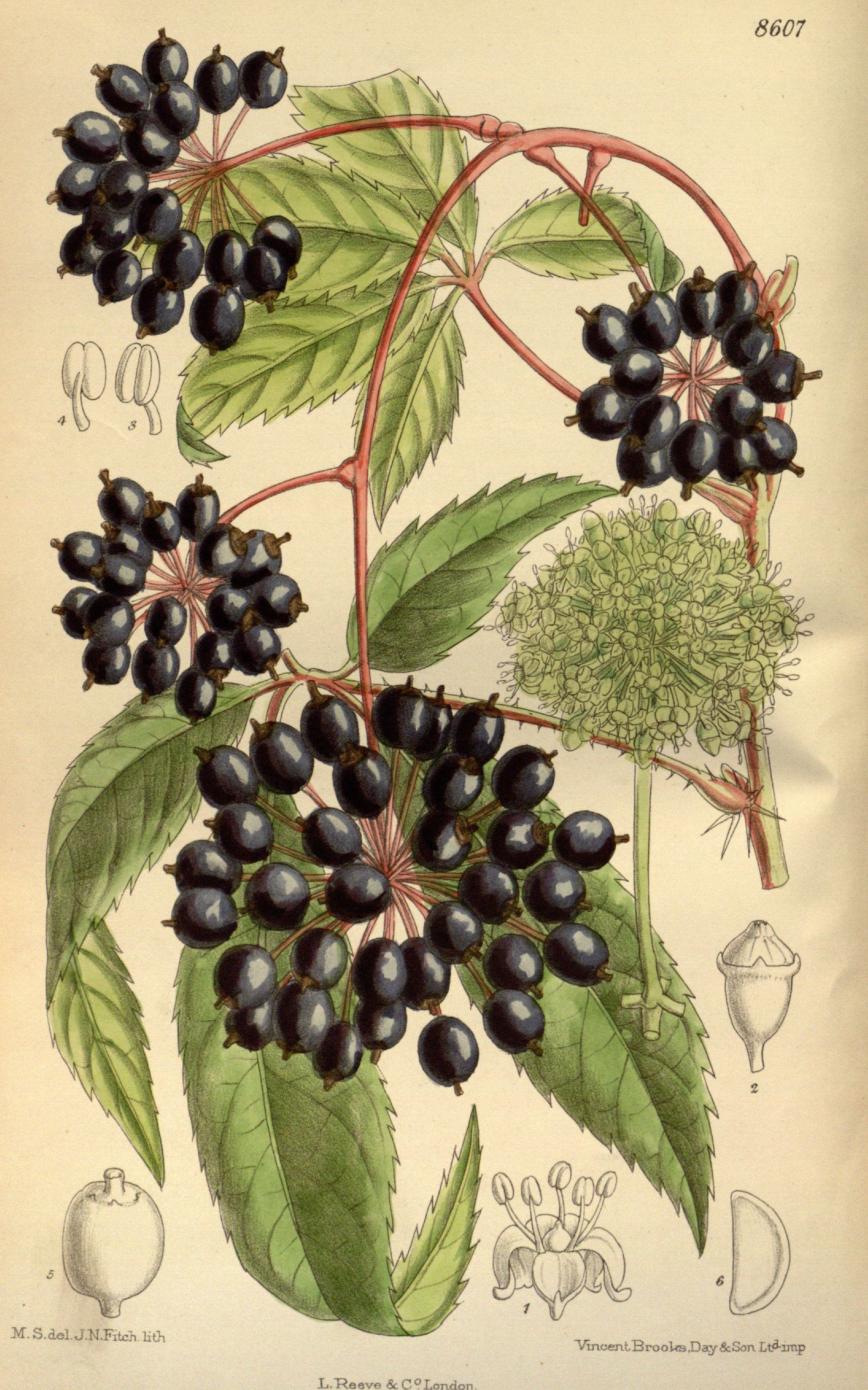 Acanthopanax leucorrhizum (= Eleutherococcus leucorrhizus), Araliaceae